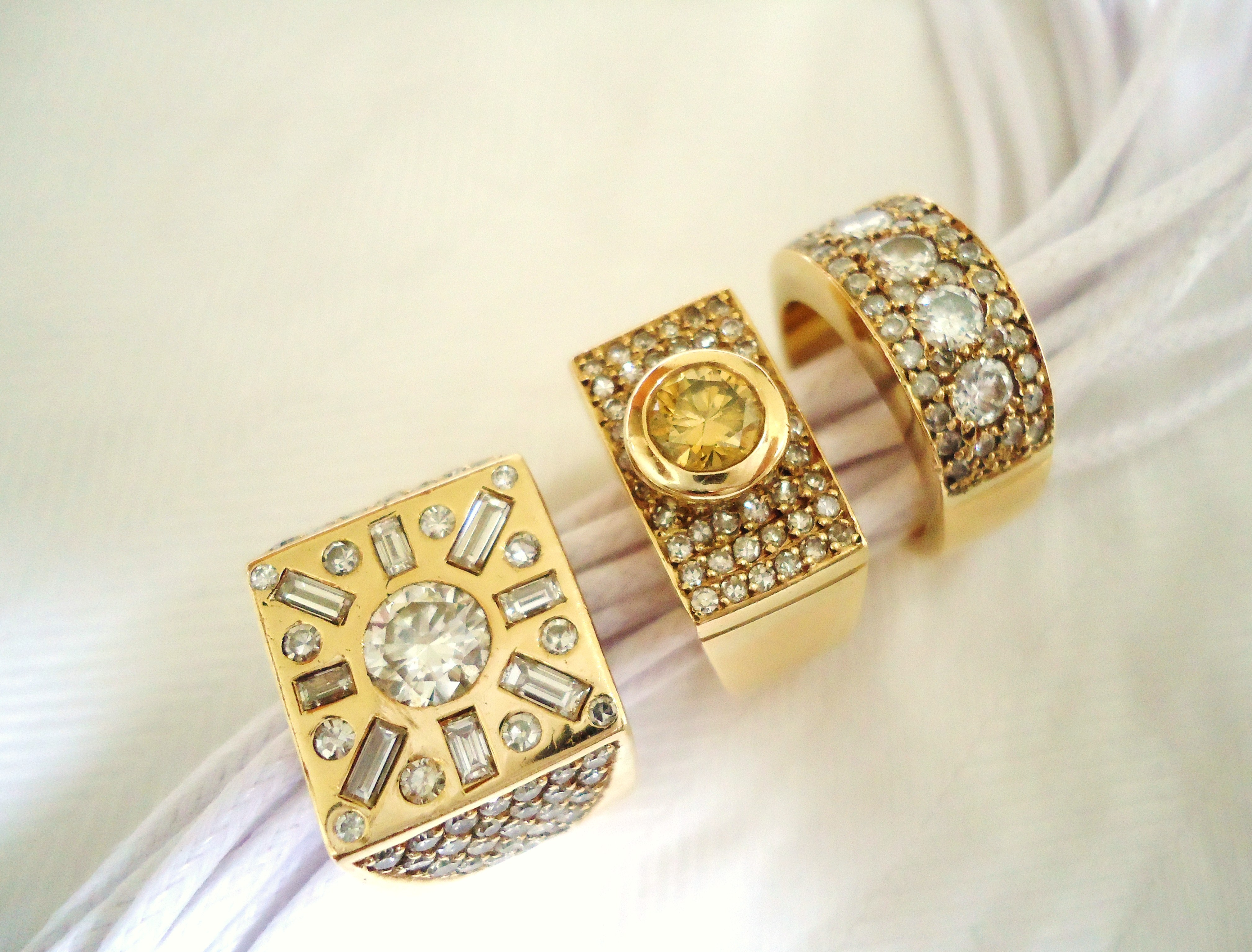 Gold and diamond rings, by Mauro Cateb, Brazilian jeweler and silversmith.